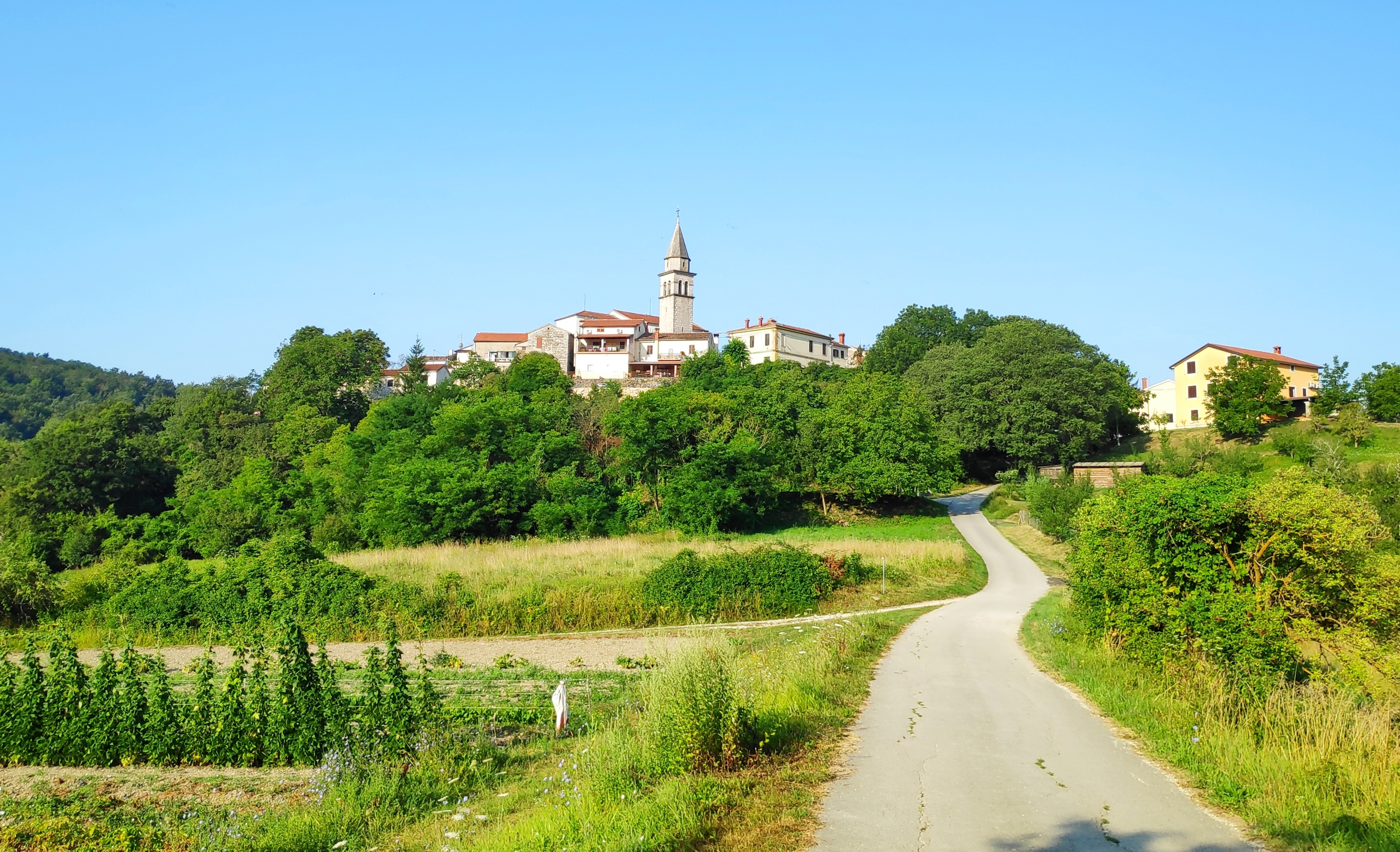 Beram (Istra)